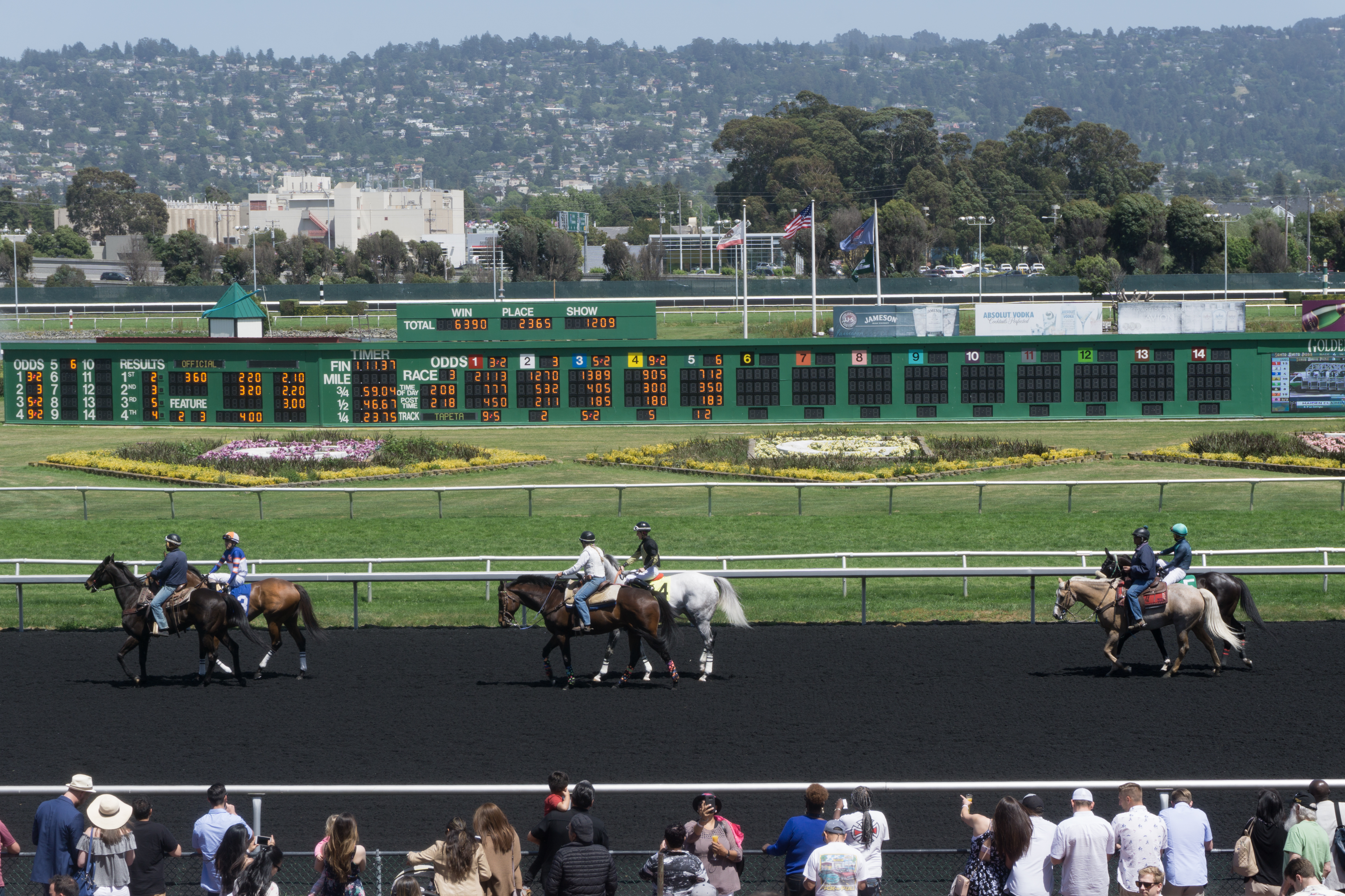 Horses and their jockeys at Golden Gate Fields in Berkeley, California.